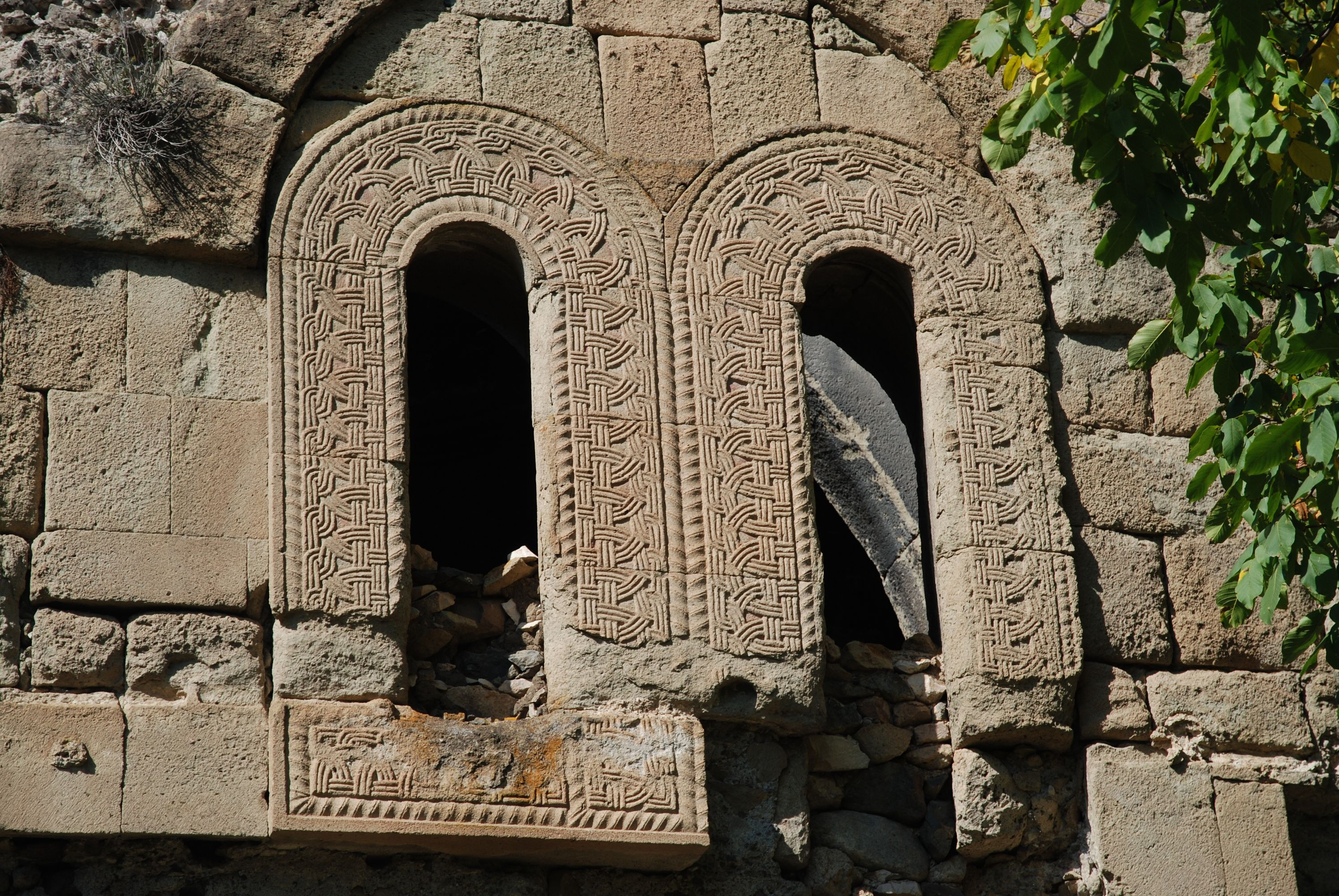 Yeni Rabat, Artvin province, Georgian church